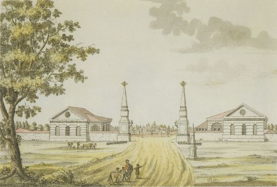 F. Durfeldt Moscow Outpost